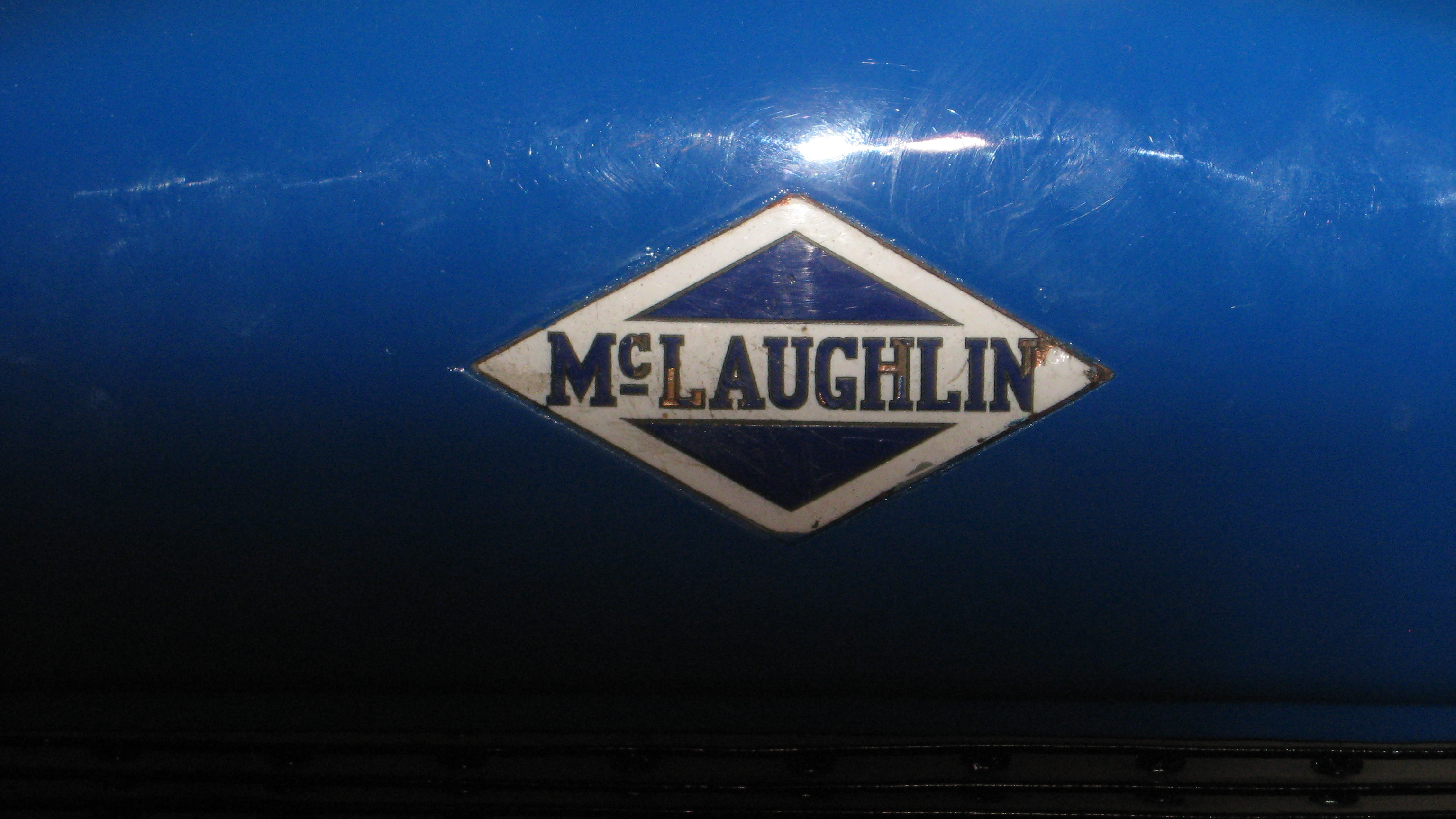 1916 McLaughlin (Canadian Buick) dash, as used in Saskatoon in 1910s. Shot at local museum.